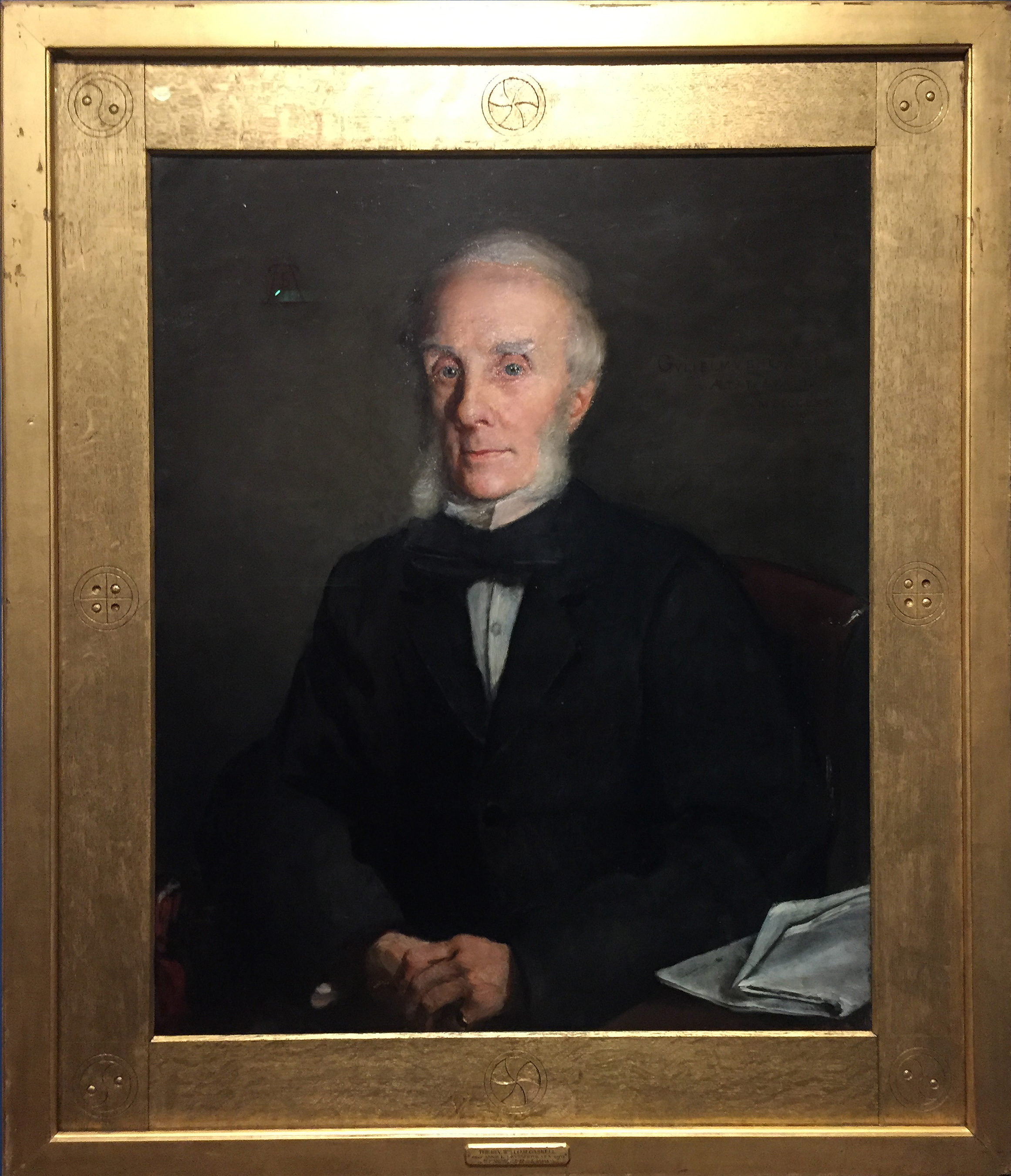 Annie Swynnterton - portrait of Rev William Gaskell